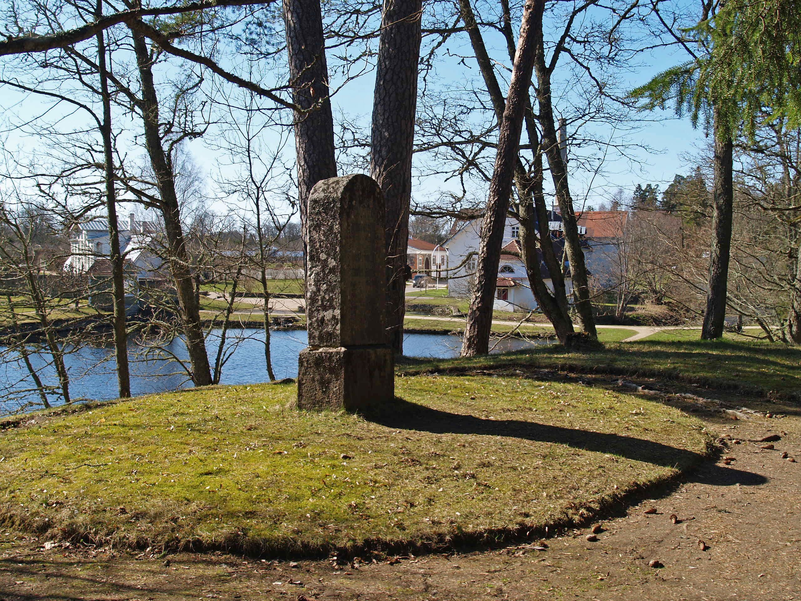 Monument of Land Reform. Palmse manor.